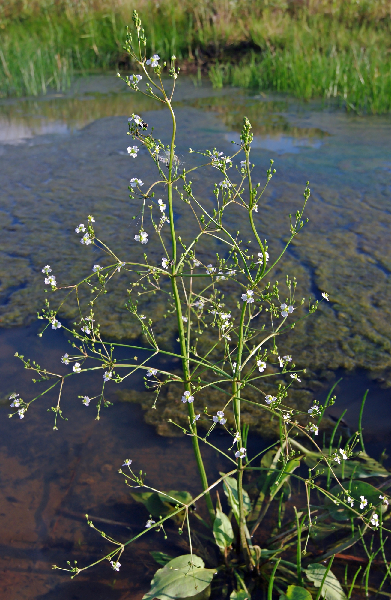 Habitus of flowering Common Water-plantain, Alisma plantago-aquatica.